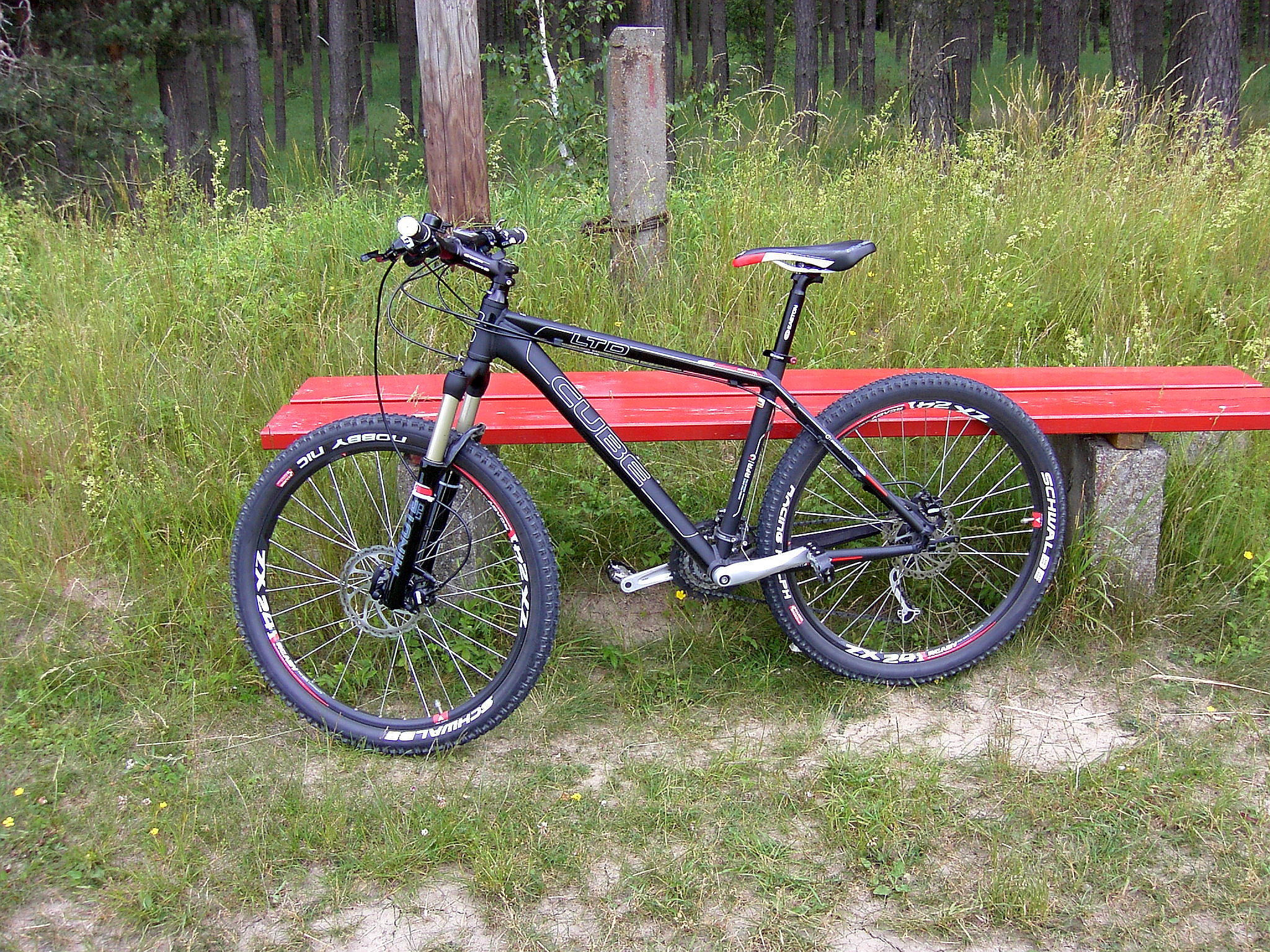 CUBE LTD PRO 2010 Bike